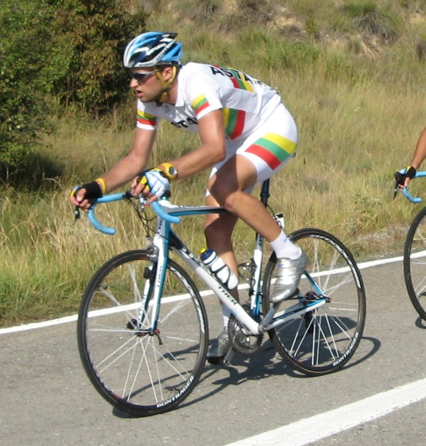 Tomas Vaitkus, 2008 Vuelta a España, 9th stage, Alto Gallego, Spain.